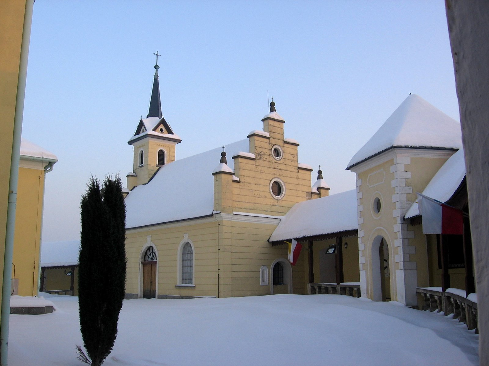 Shrine of Our Lady of Sorrows in Stary Wielislaw